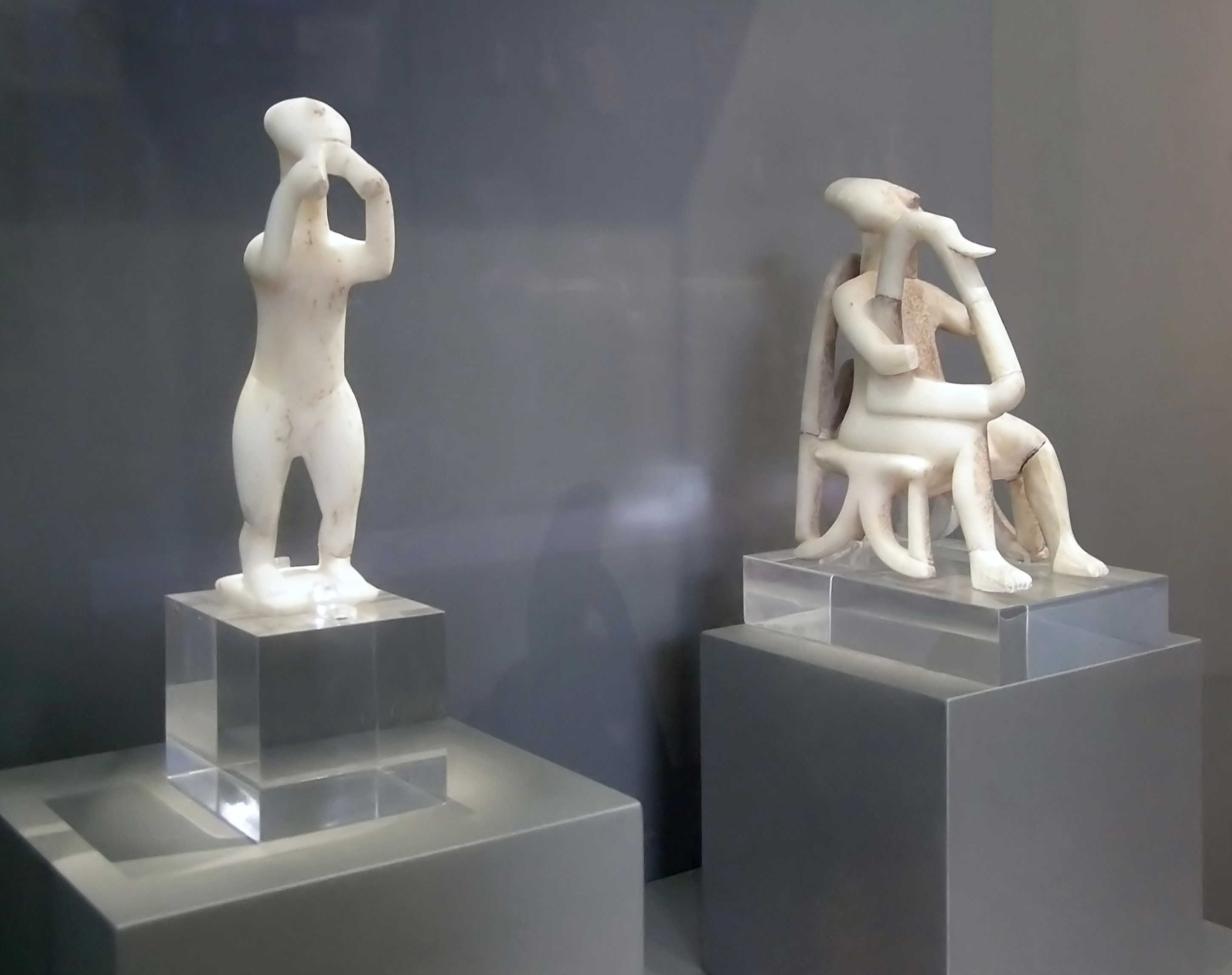 figurines of an aulosplayer (aulos) and of a harpplayer, bronze age, 2600 B.C., from the Greek island Keros in the island group of the Cyclades. On display at the National Archaeological Museum of Athens.